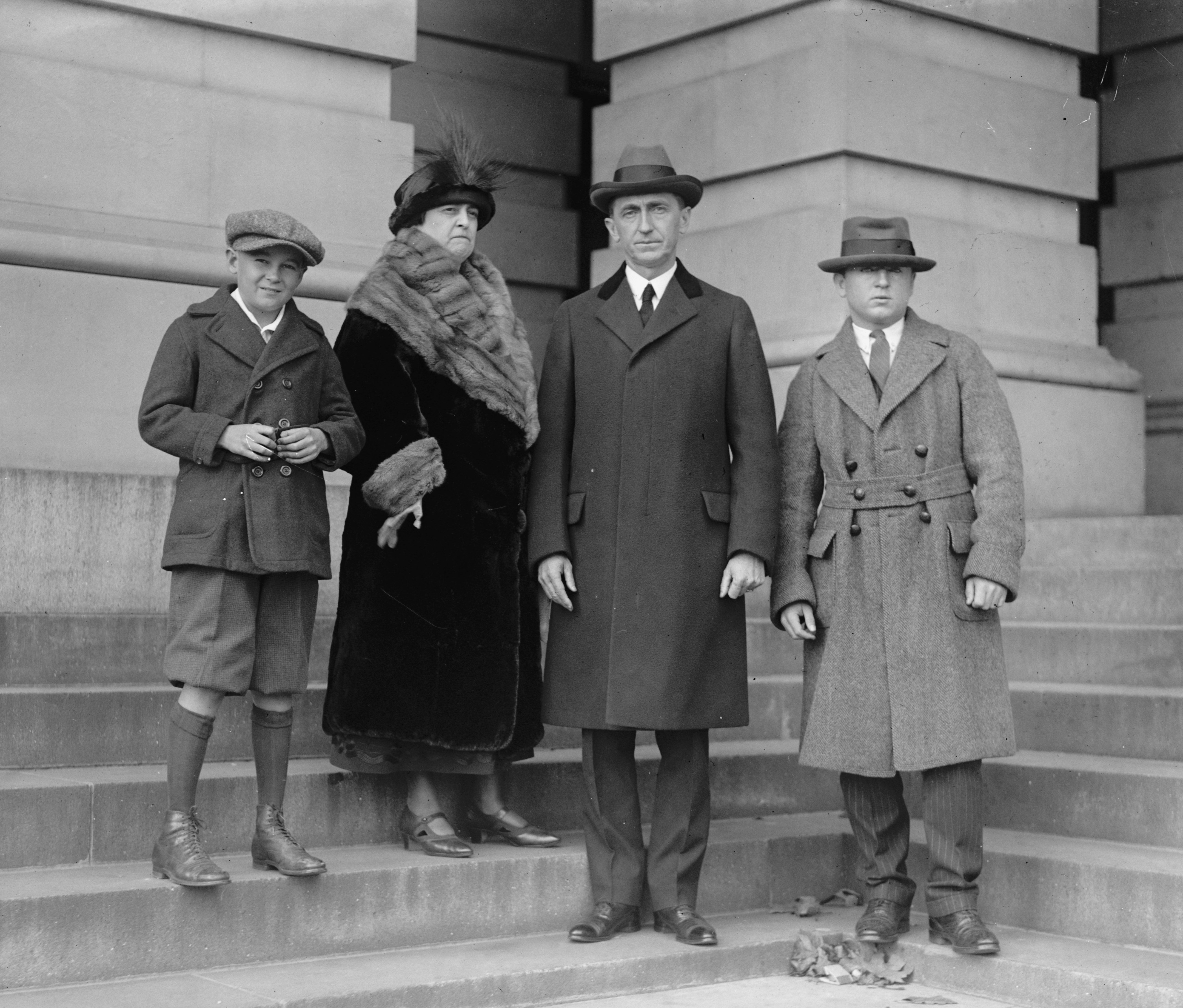 Title: Sen. Walter F. George & family, 11/20/22 Abstract/medium: National Photo Company Collection (Library of Congress) Physical description: 1 negative